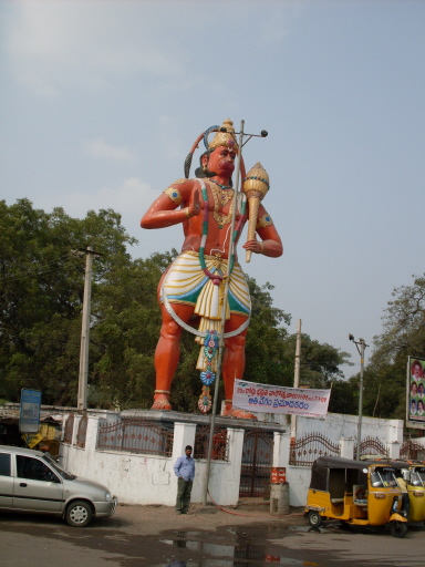 Hanuman statue at the junction of Karim Nagar - Chandrapur road and NH16 in the Municipal town of Mancherial, Adilabad District, Andhra Pradesh. India